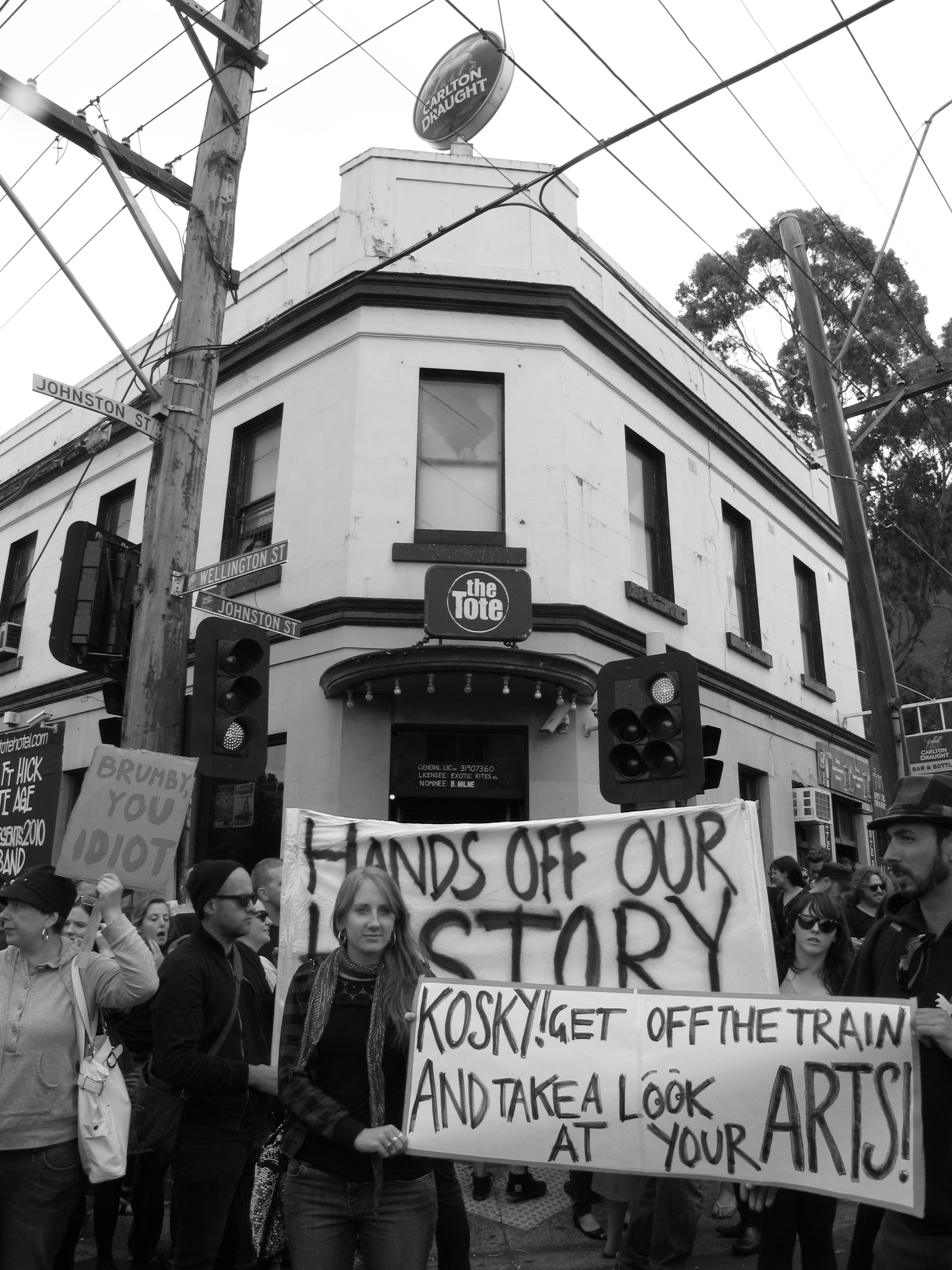 Banners at the entrance to The Tote Hotel during the January 2010 rally, Collingwood, Melbourne, Victoria, Australia. Photo taken by Nick carson, January 2010.